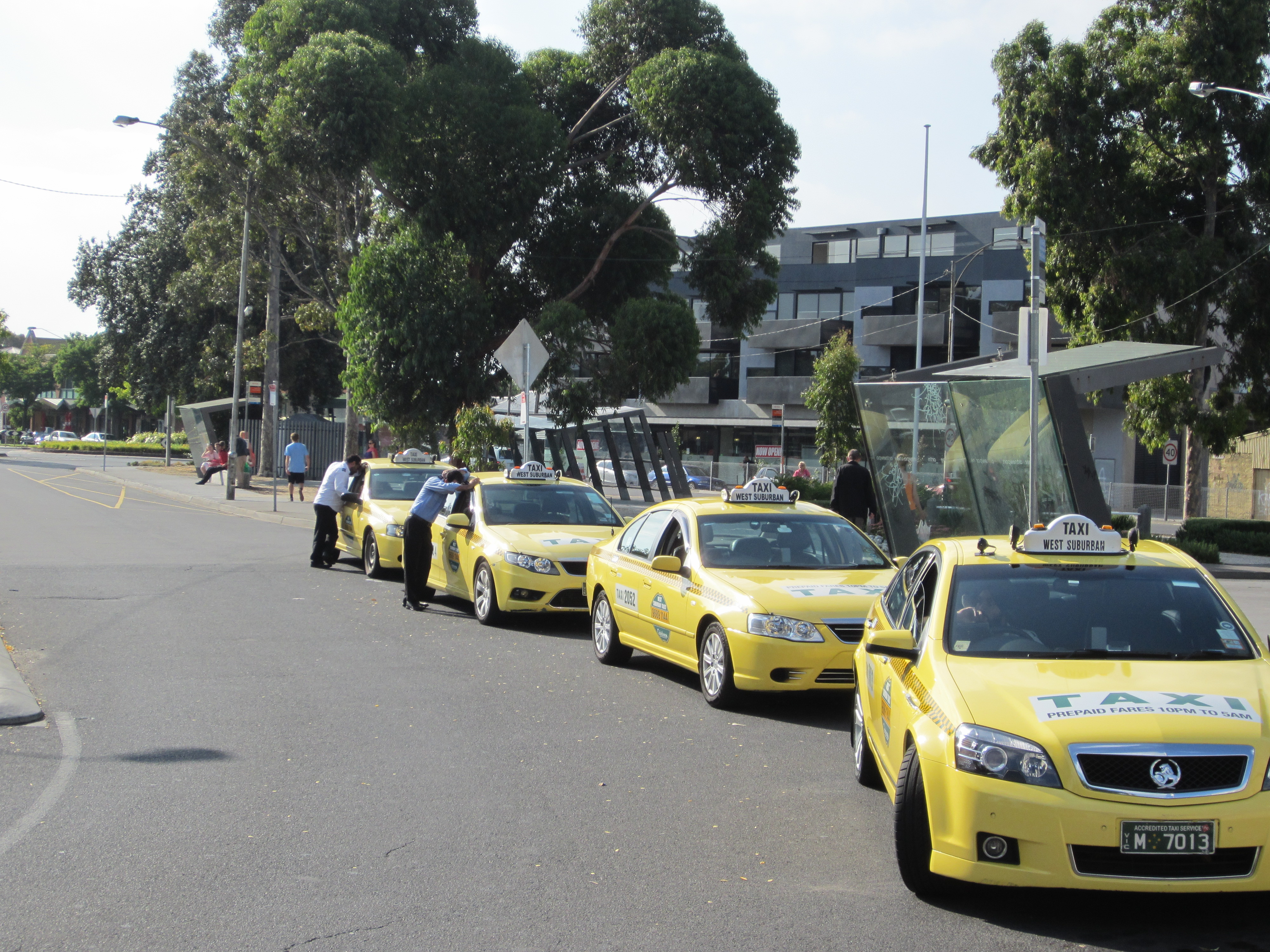 Taxi Rank at Newport interchange, Newport Victoria